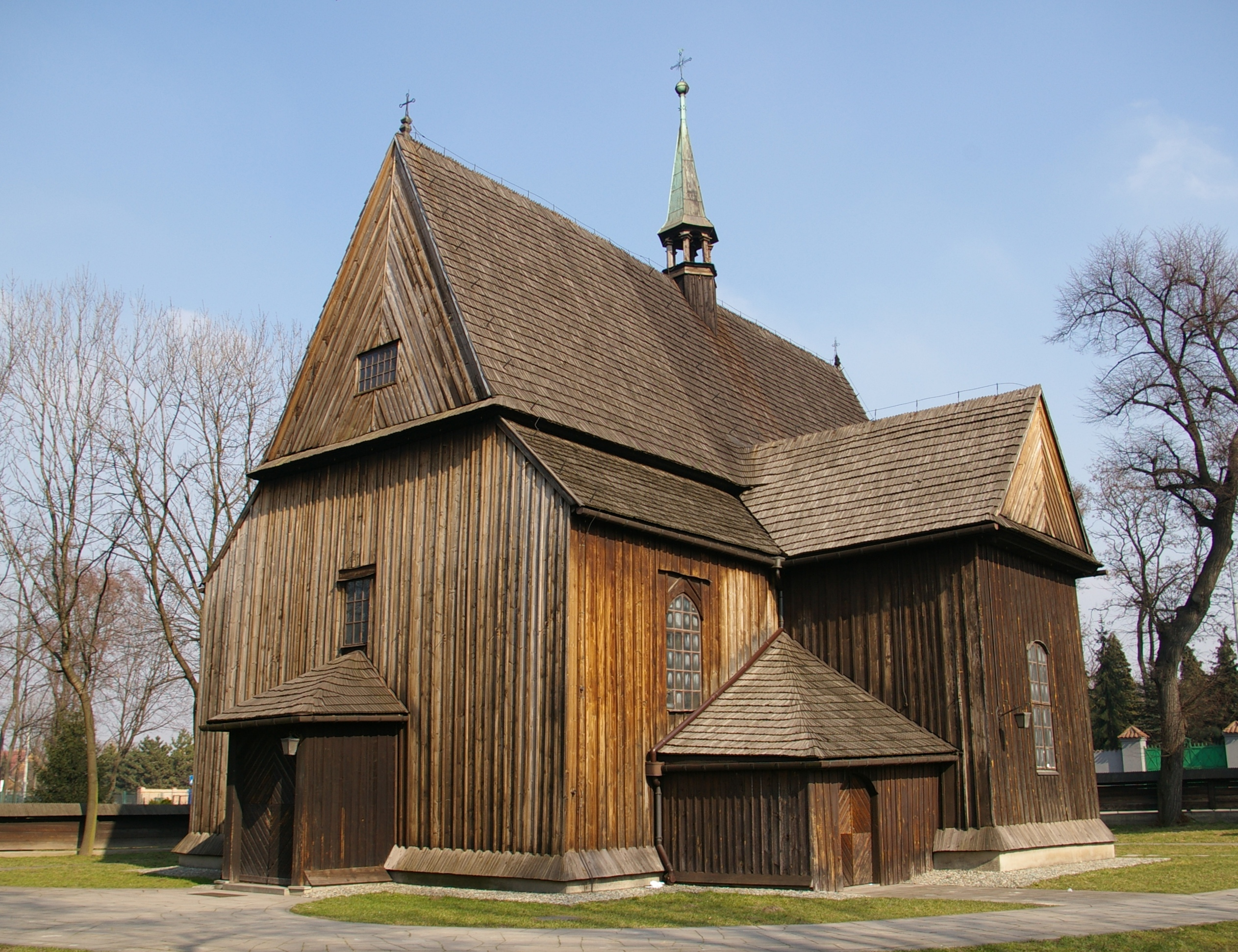 Church of St. Bartholomew in Kraków